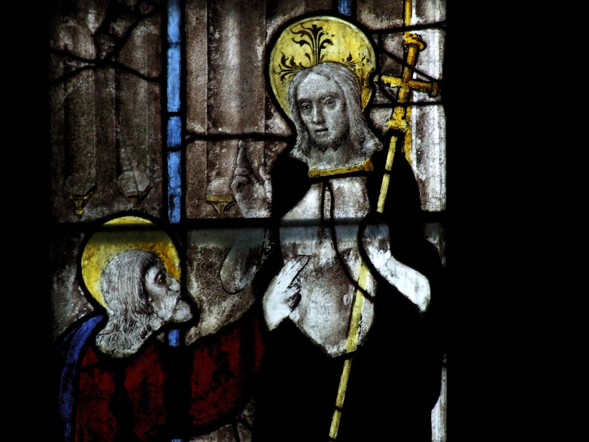 St. Mary, Fairford, Gloucestershire, England